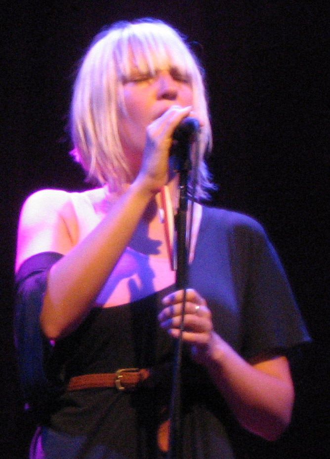 Sia Furler in concert with Zero 7